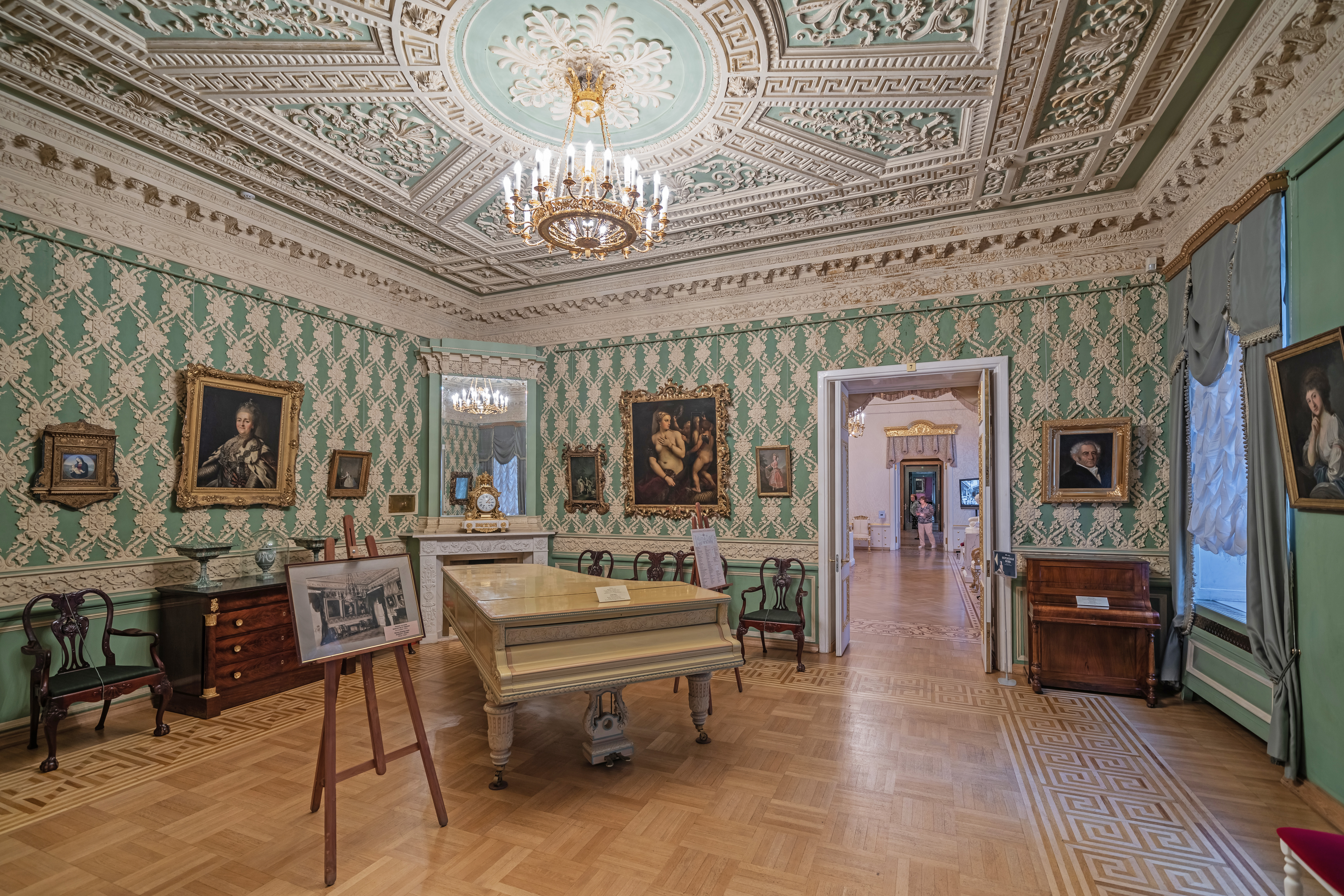 Interiors of Fountain House (Sheremetev Palace at Fontanka) in Saint Petersburg, Russia